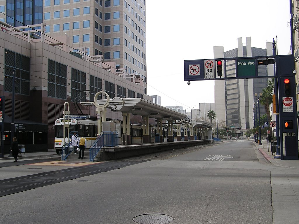 LACMTA Blue Transit Mall Station in downtown Long Beach, California